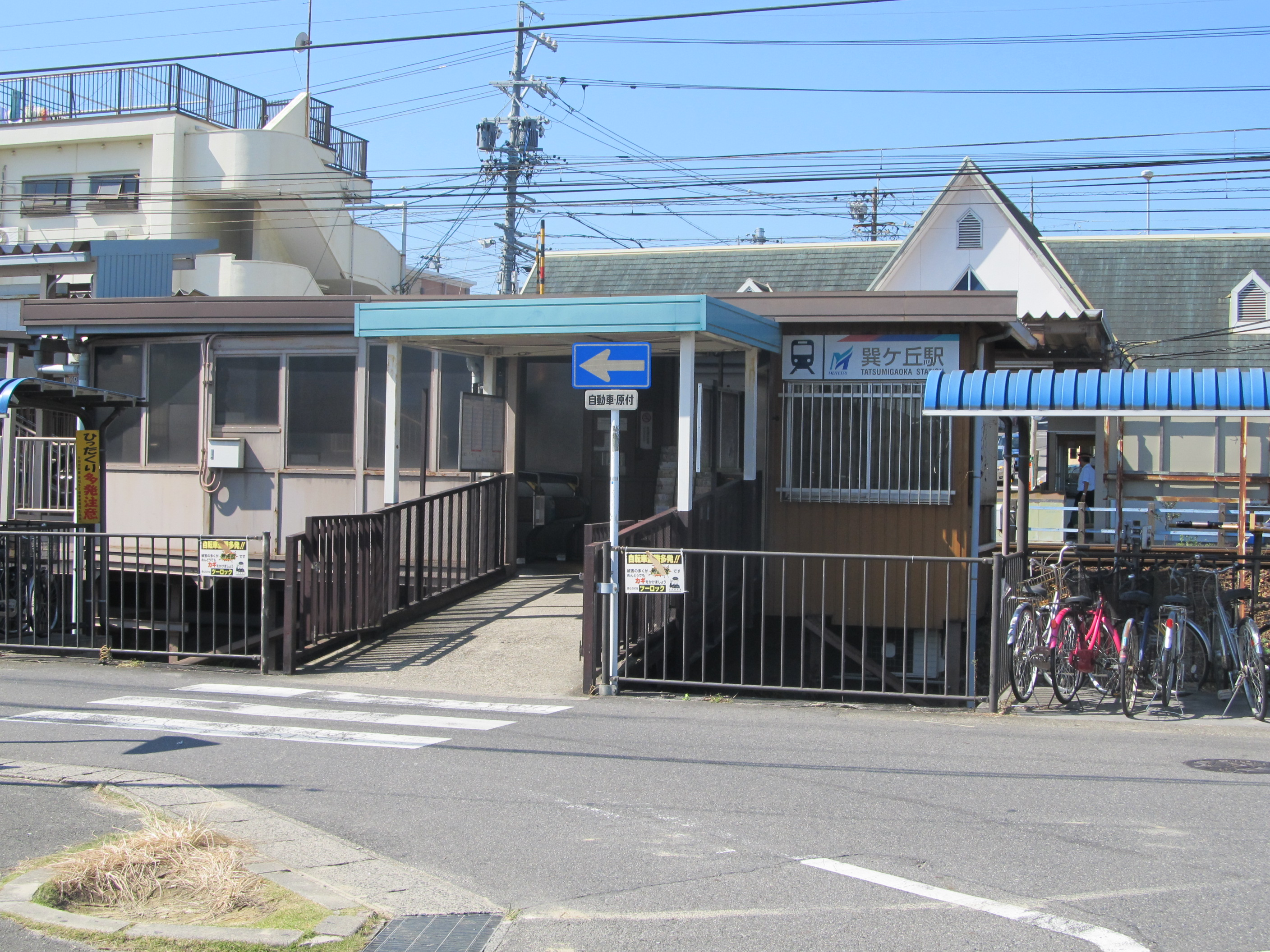 Nagoya Railroad Kowa Line Tatsumigaoka Station East Gate